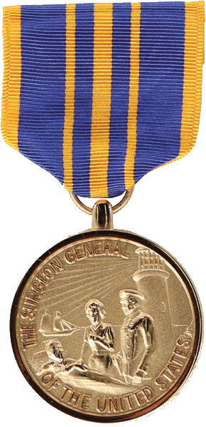 Surgeon General's Exemplary Service Medal